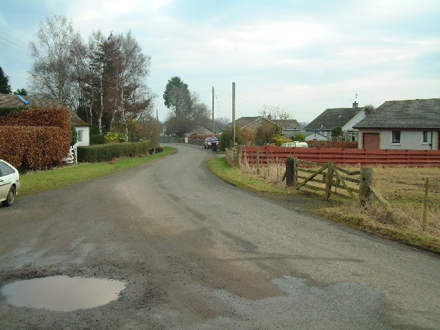 Kilspindie village. The road into the village from the east